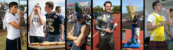 Ranger Day at Jesuit College Preparatory School of Dallas Photo taken by me, Michael Ho.